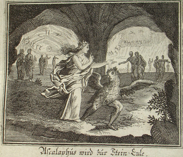 Ascalaphus is turned into an owl. Engraving by Johann Ulrich Krauß, 1690.